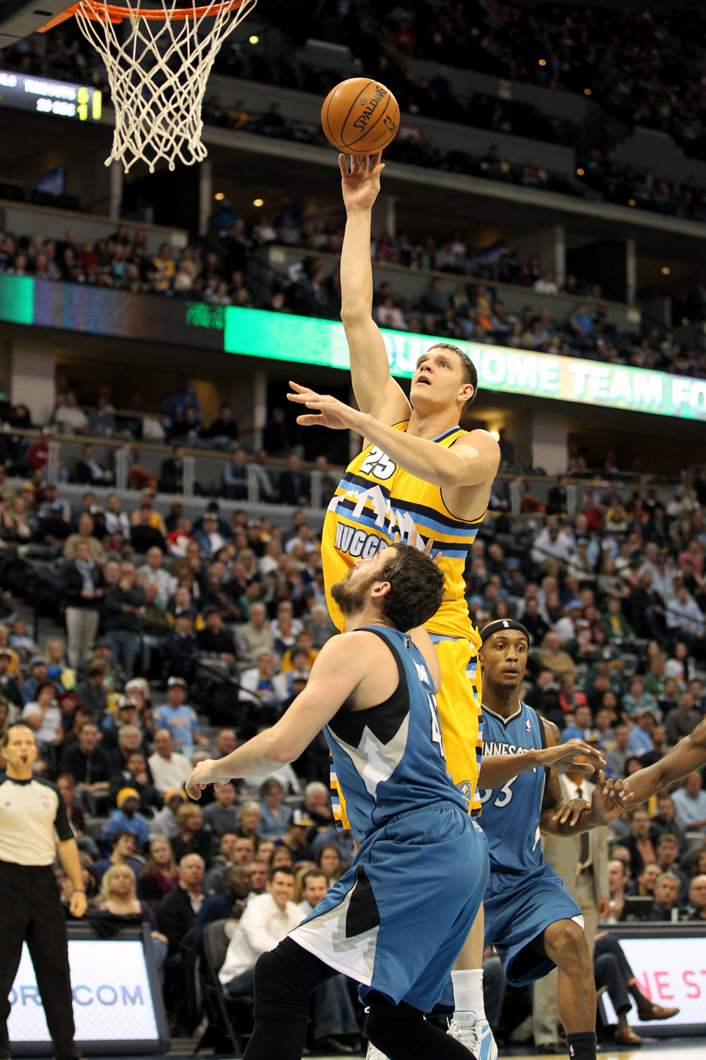 Mozgov attacks basket